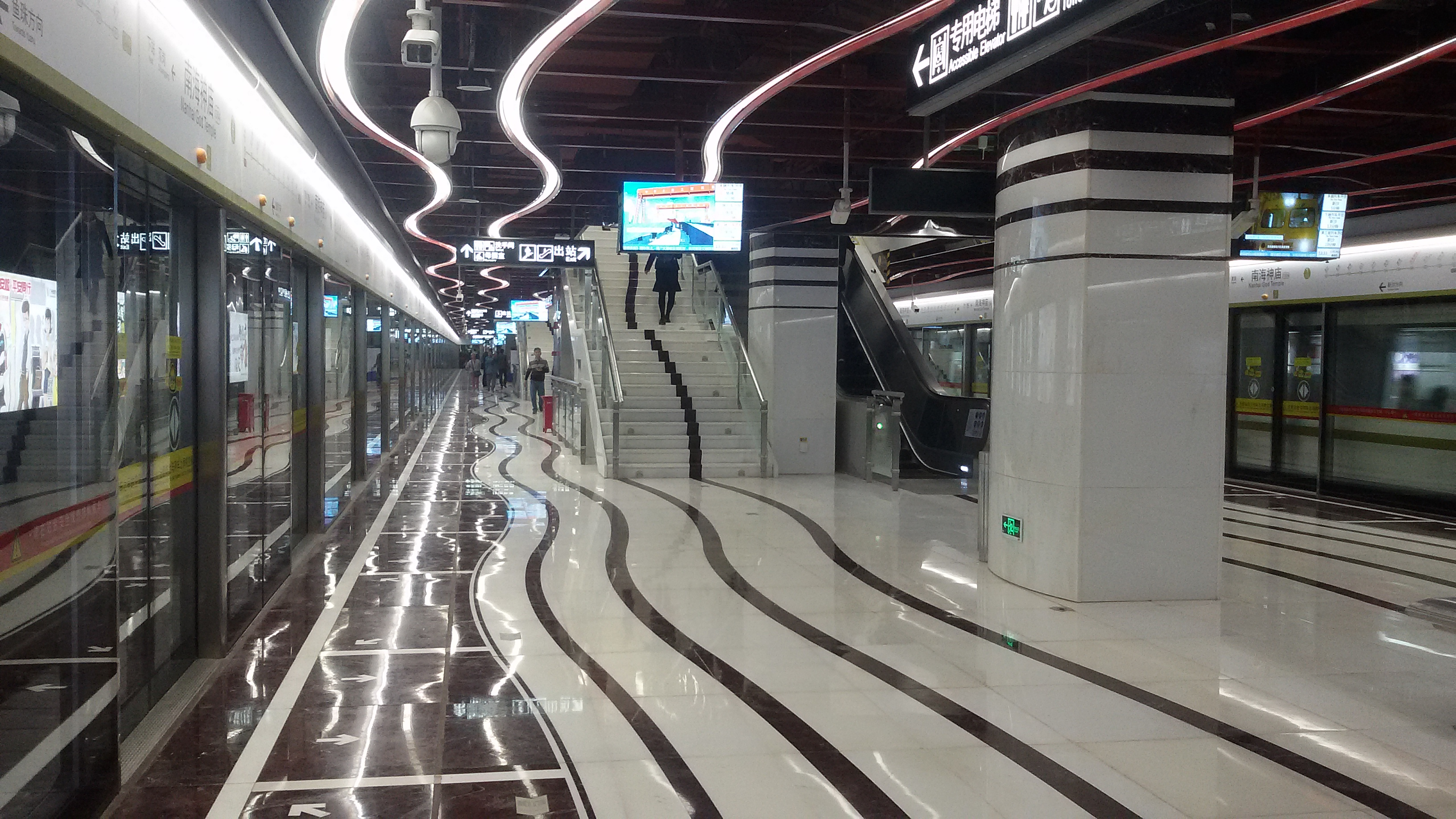 Station Platform for Nanhai God Temple Station in Guangzhou Metro.